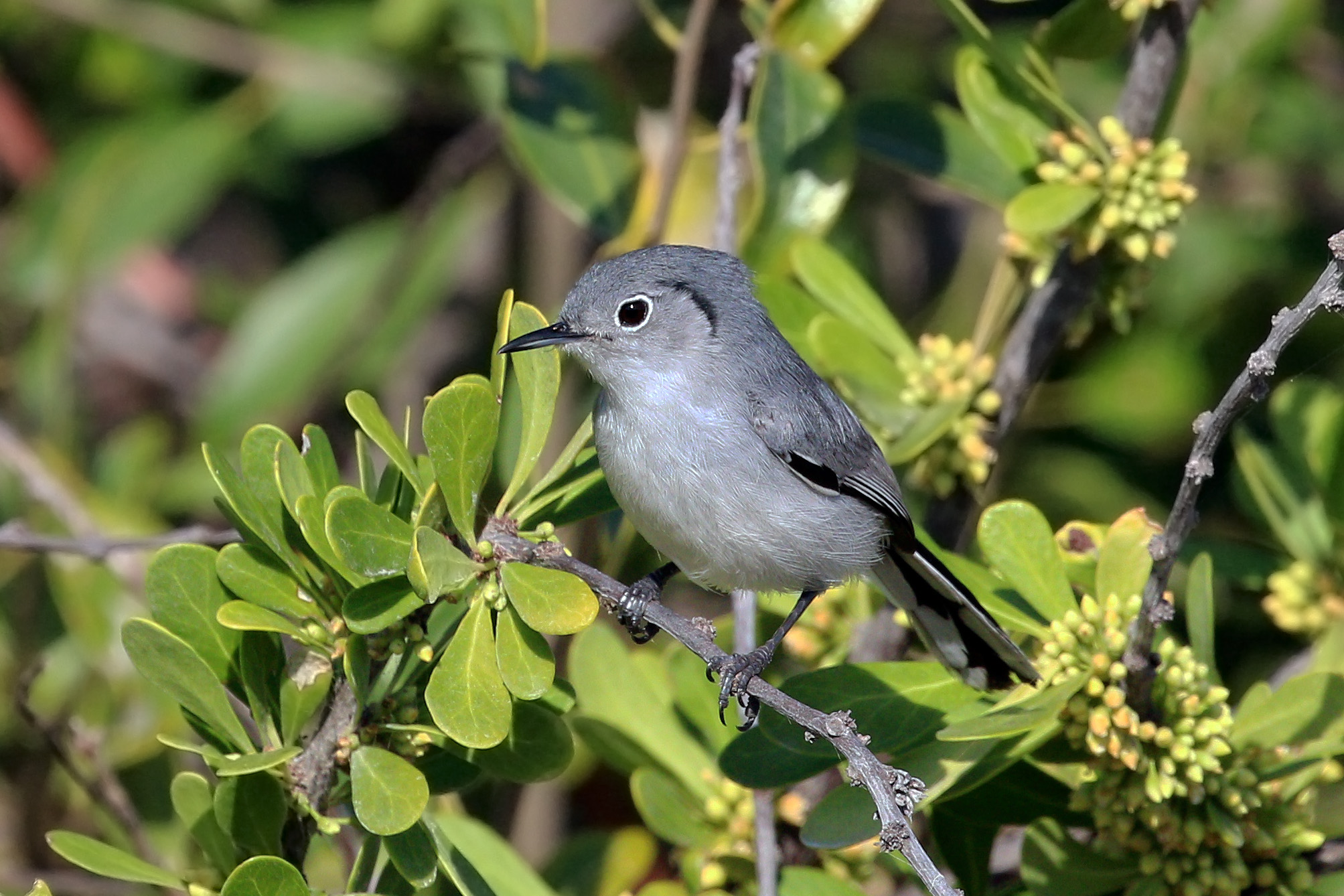 Cuban gnatcatcher (Polioptila lembeyei), Cayo Romano, Cuba